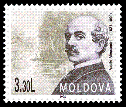 Stamp of Moldova; Description:Vasile Alecsandri